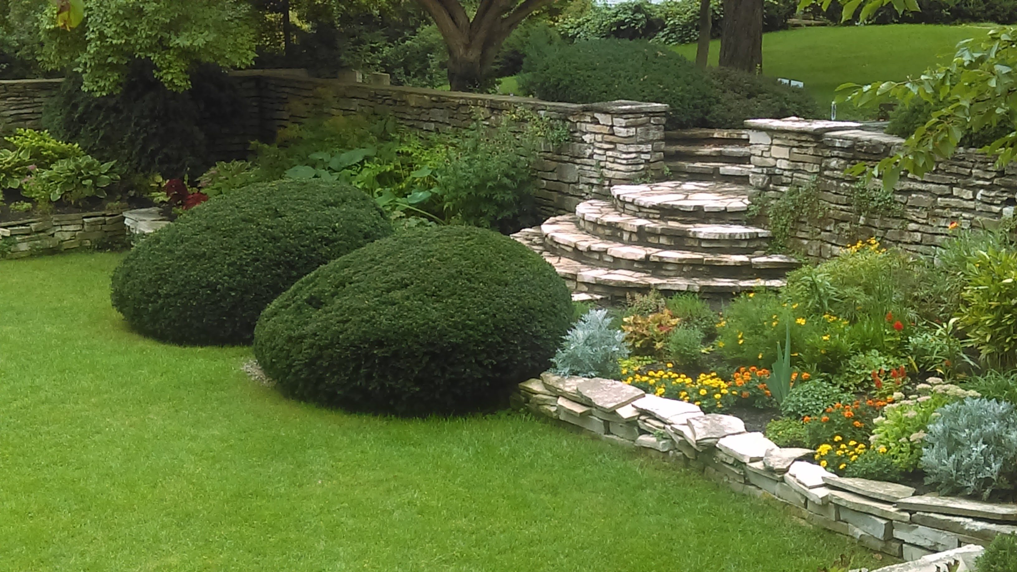 This is the stairway that leads to the sunken level of the garden. the two evergreens that flank the entry are mirrored across the garden near the grotto.